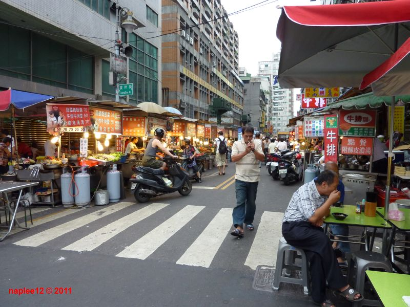 Guangzhou Street Night Market, Taipei City.